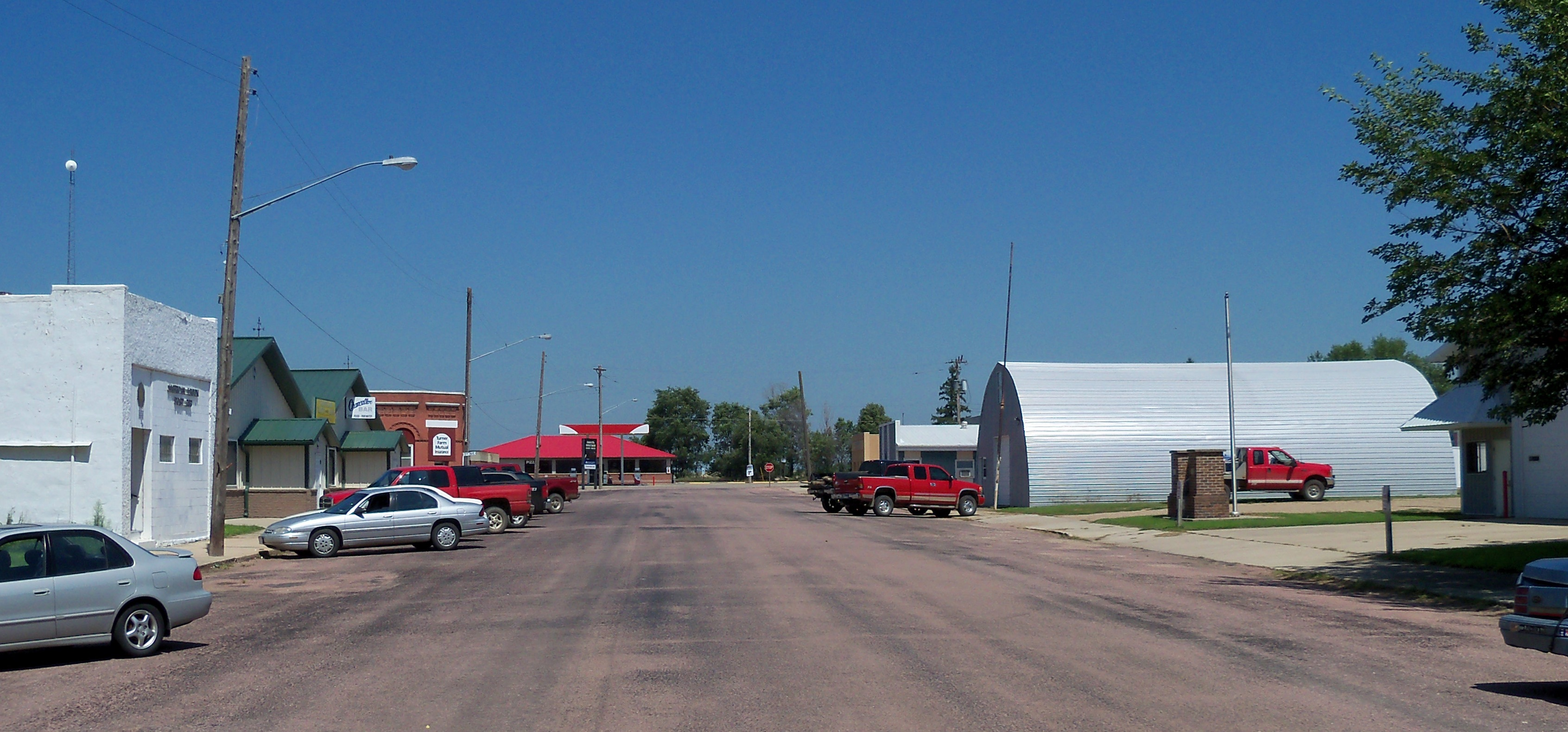 Downtown Chancellor, South Dakota, USA.